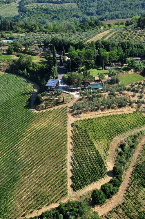 I Balzini Estate in the Florentine Hills